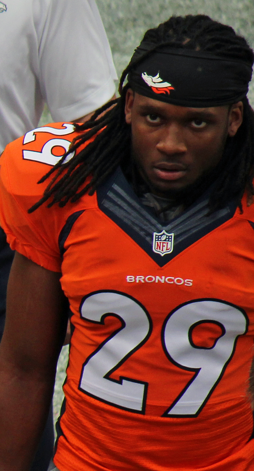 Bradley Roby, a player on the National Football League.